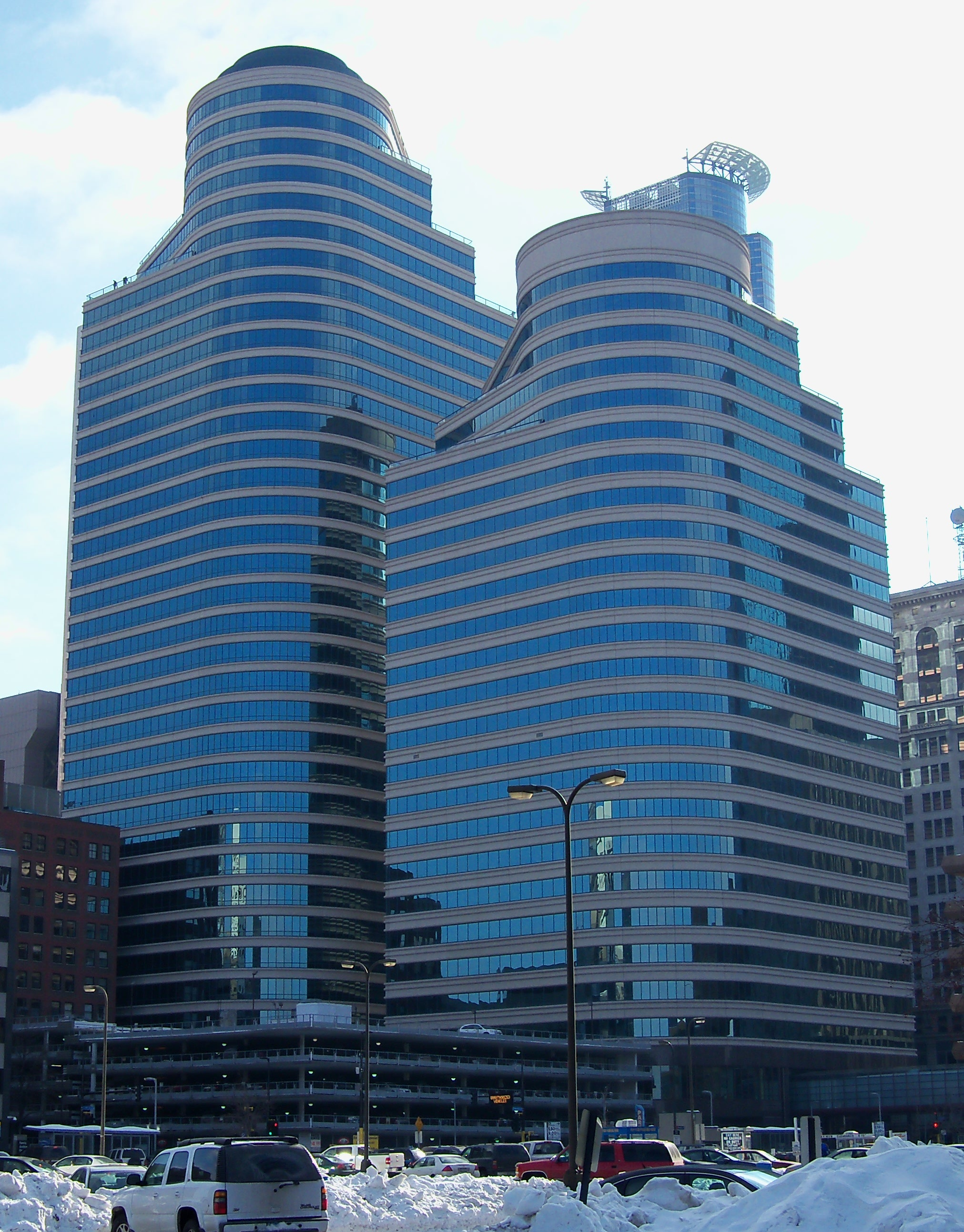 Fifth Street Towers in Minneapolis, Minnesota, USA. Photo taken from the northwest facing the rear of the buildings.